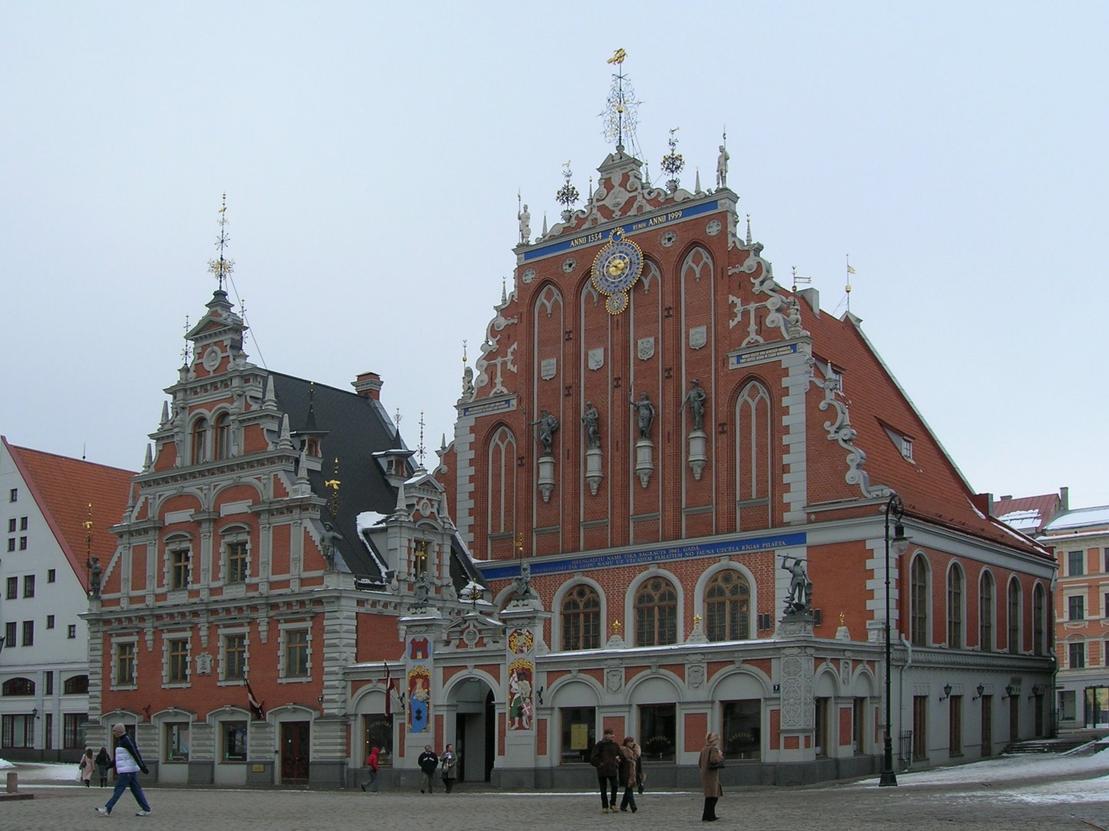 Riga - House of Blackheads.